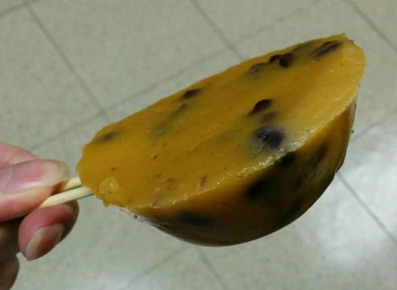 A put chai ko, steamed red bean rice pudding, a pudding cake from Hong Kong.